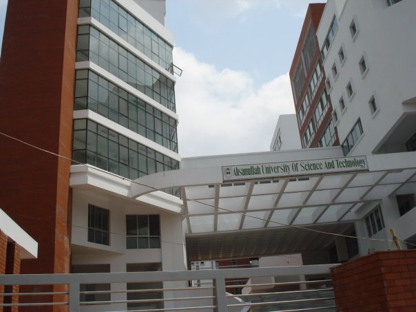 front view of aust